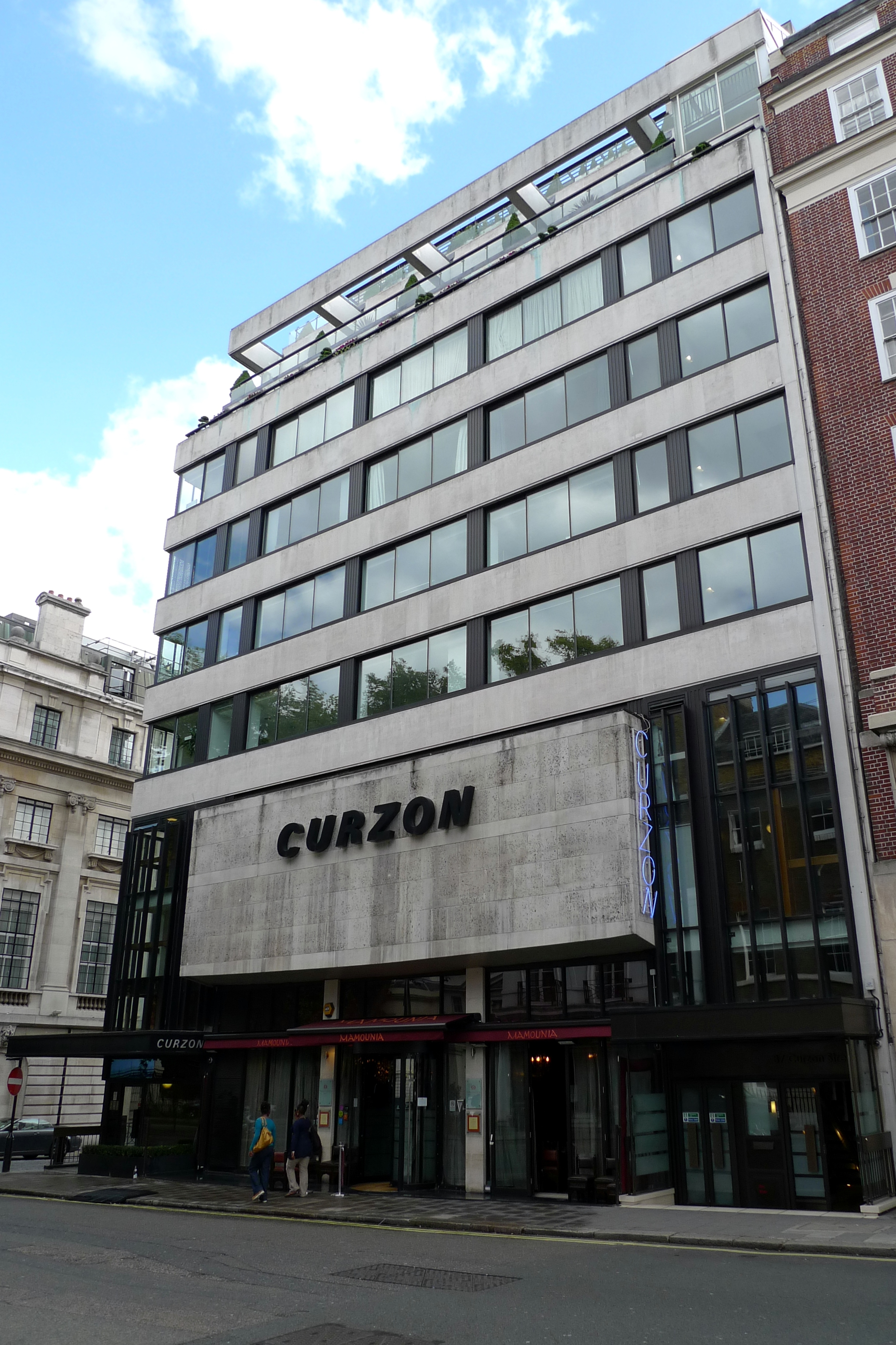 A fine cinema for this upstanding neighbourhood. Built in 1966 (replacing an earlier Curzon cinema). Address: 38 Curzon Street. Owner: Curzon Cinemas (website). Links: Randomness Guide to London Cinema Treasures